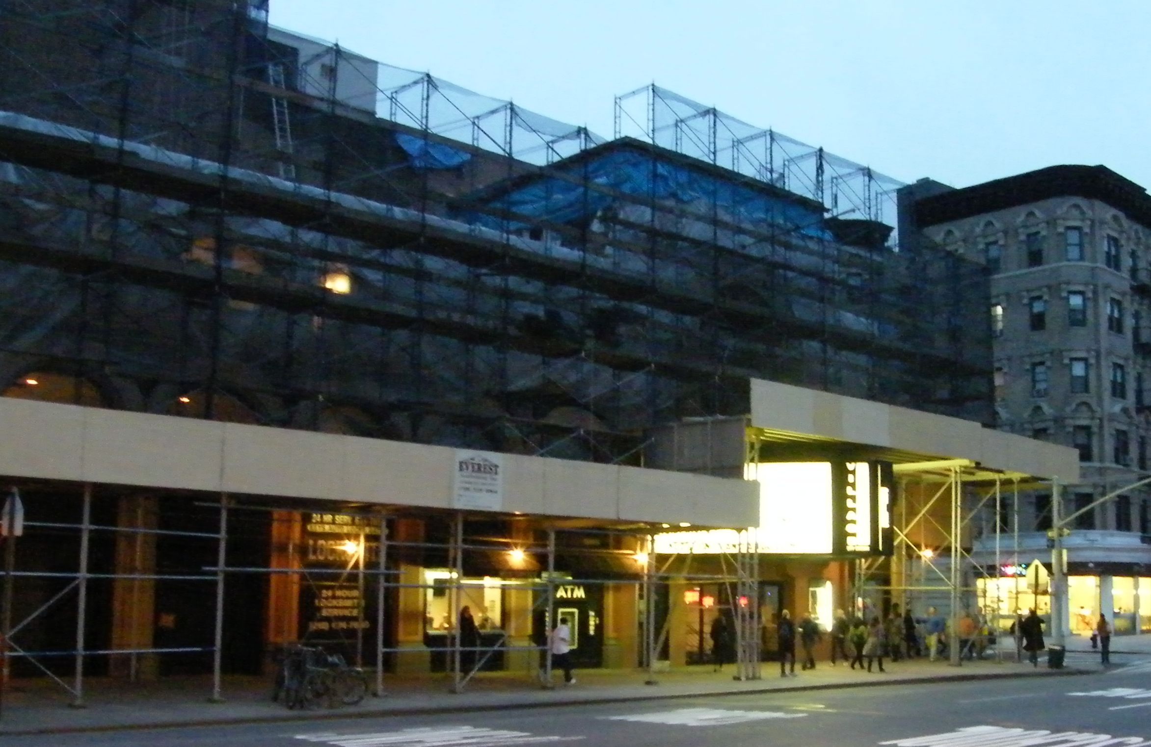 Yiddish Art Theatre in New York City on National Register of Historic Places